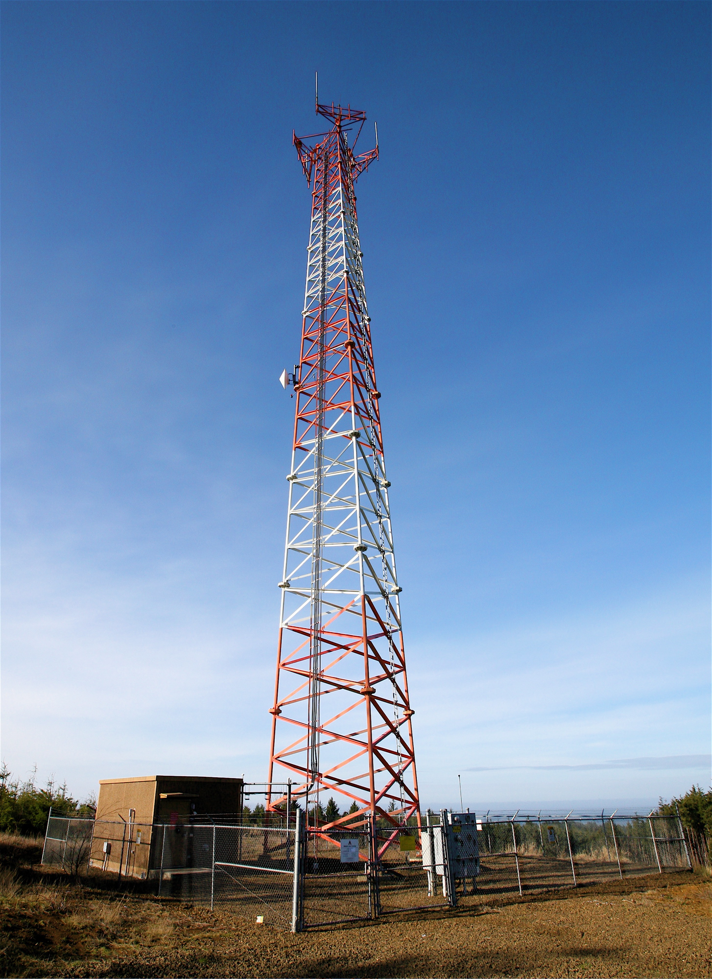 A cell phone cite on a self support tower in Oregon.